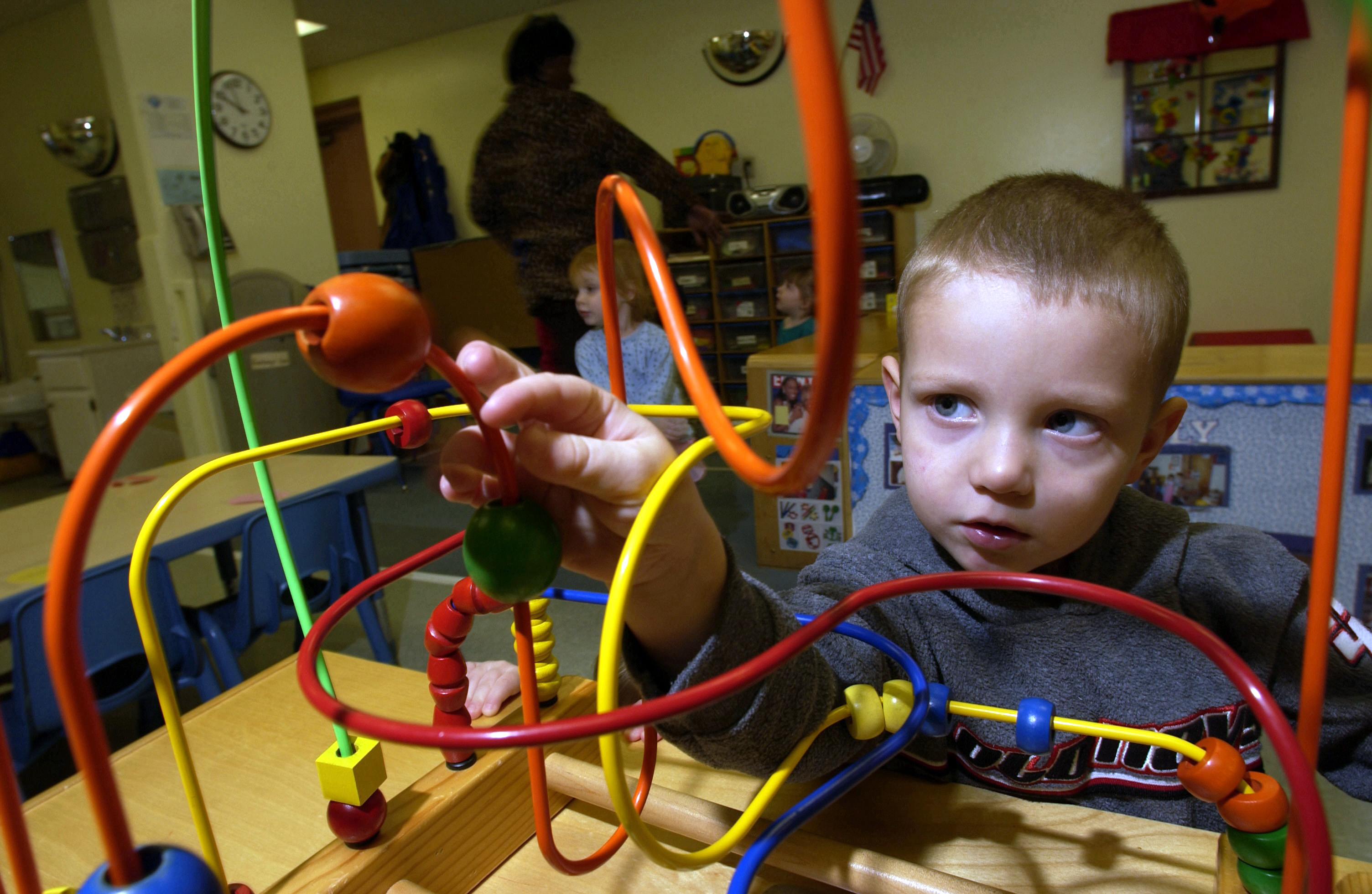 Millington, Tenn. (Jan. 14, 2005) - The Morale Welfare and Recreation Child Development Center on board Naval Support Activity Mid-South in Millington, Tenn., provides daycare services for dependent children ages six weeks to five years old of military personnel. U.S. Navy photo by Photographer’s Mate 3rd Class Joseph M. Buliavac (RELEASED)